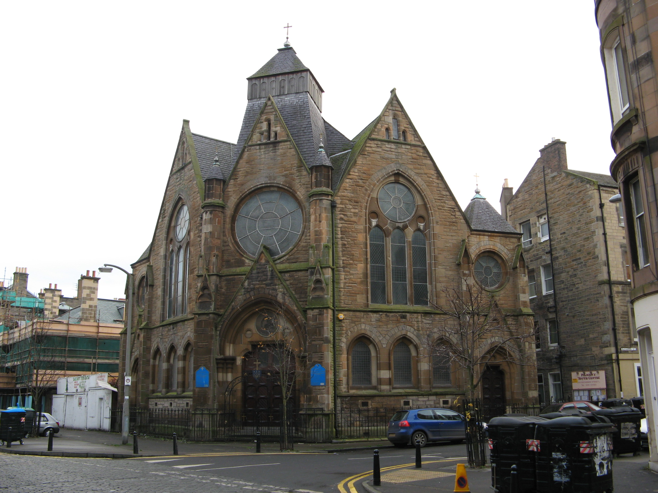 Ukrainian Greek Catholic Church of St Andrew, Leith, Edinburgh, Scotland. Built in 1882 as an United Presbyterian Church.